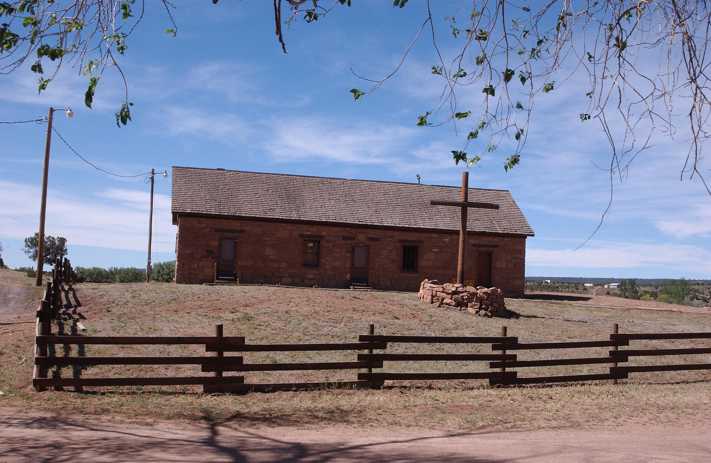 THE MUSEUM IS LOCATED IN THE ORIGINAL MISSION BUILDING RESTORED TO ITS 1898 APPEARANCE. NEARBY IS THE PRESENT-DAY FRANCISCAN CHURCH